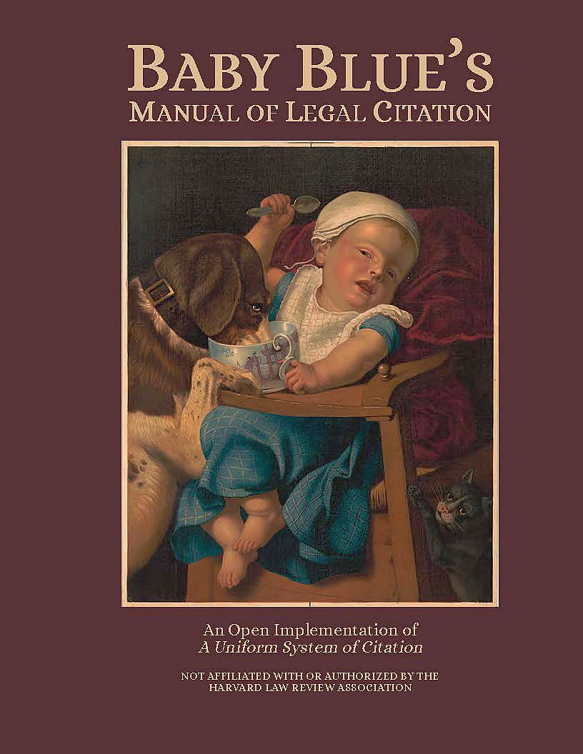 Original cover of Baby Blue's Manual of Legal Citations. The name and cover have since been changed due to trademark issues.